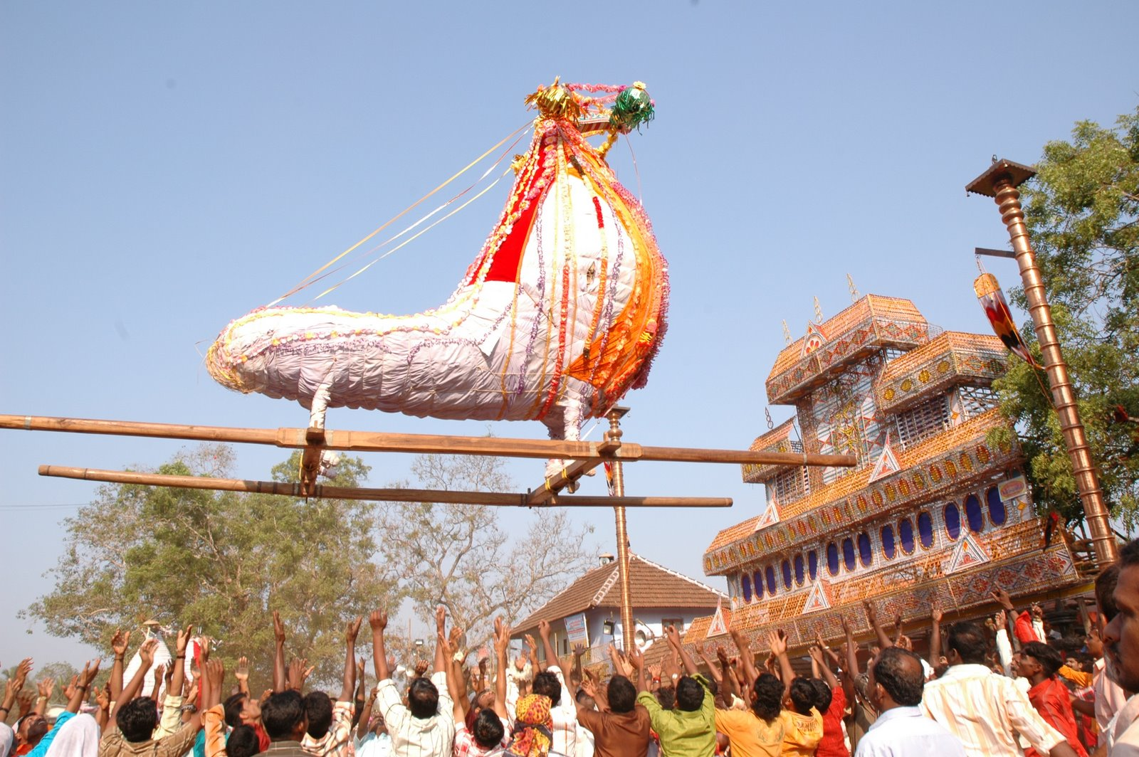 This photo is taken during the Chinakkathur Pooram in Palappuram, Ottapalam. Very famouse goddess temple in Kerala.